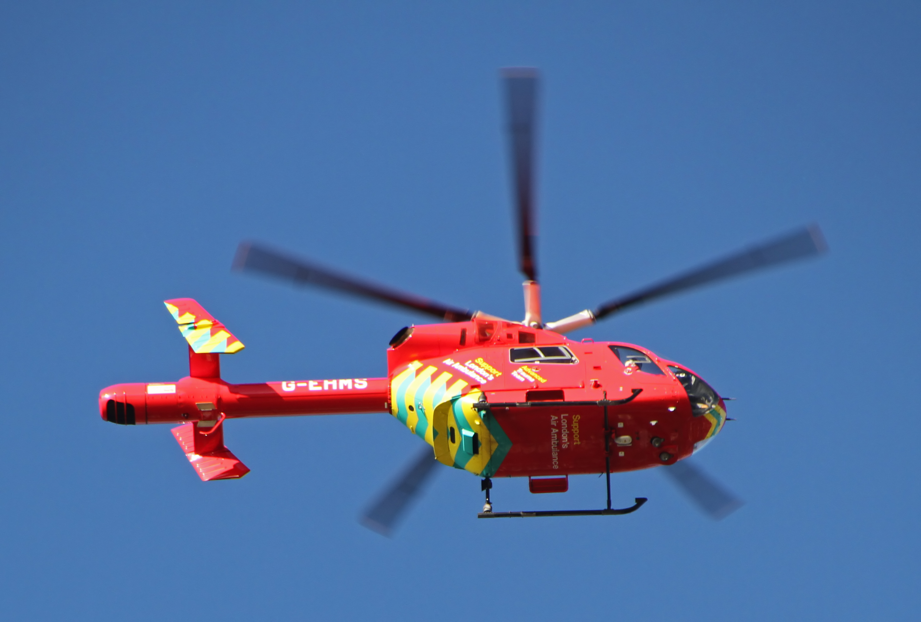 London's Air Ambulance MD Helicopters MD-902 Explorer G-EHMS